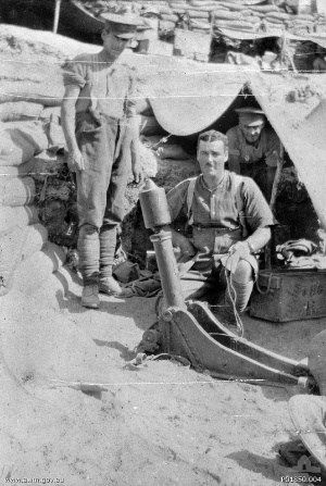 AWM caption : "Gallipoli, Turkey, 1915. Members of an Australian trench mortar battery preparing to fire a Japanese trench mortar. The soldier in the centre is holding a cord which he is about to pull to fire the weapon. The nose of a mortar shell can be seen protruding from the end of the barrel. (Original print housed in P run in AWM Archive Store) (Donor G. Smith)"